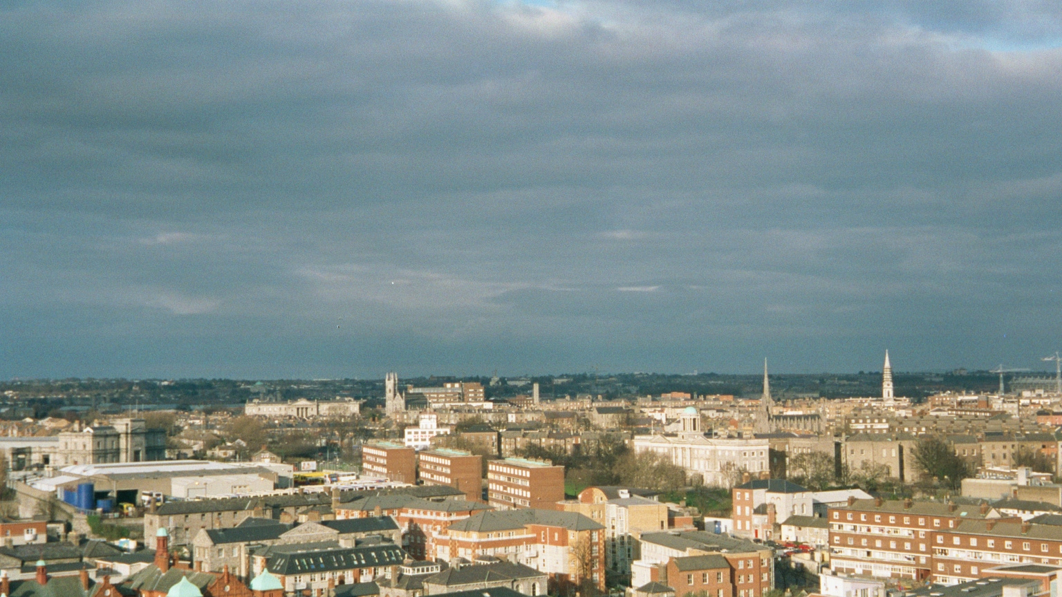 View over a part of Dublin. On the Picture you can see the Richmond Sugical Hospital, Broadstone, the Mater Misericordiae Hospital, the Church at the Berkeley Ave and some other interesting Buildings.